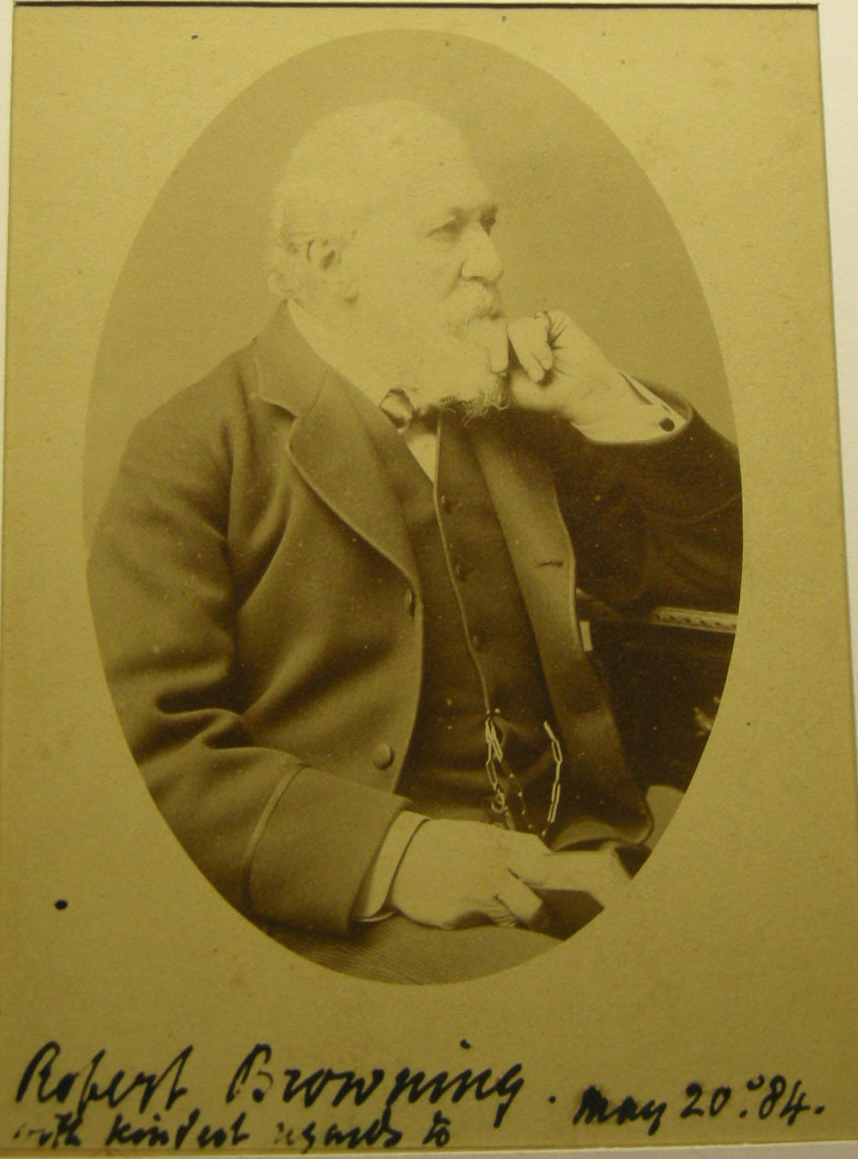 Portrait of Robert Browning